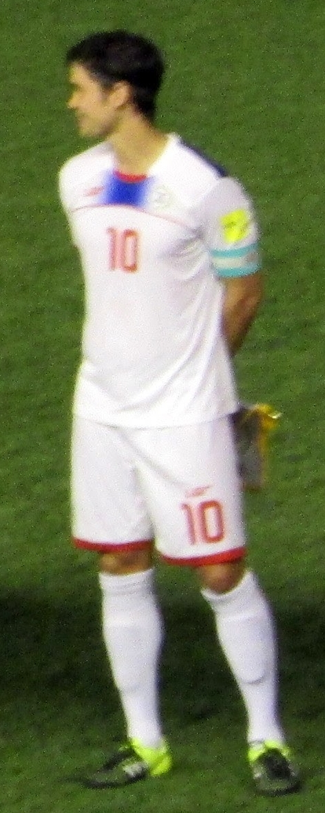 Phil Younghusband with the Philippine national team. Philippines v. Maldives friendly. September 3, 2015.